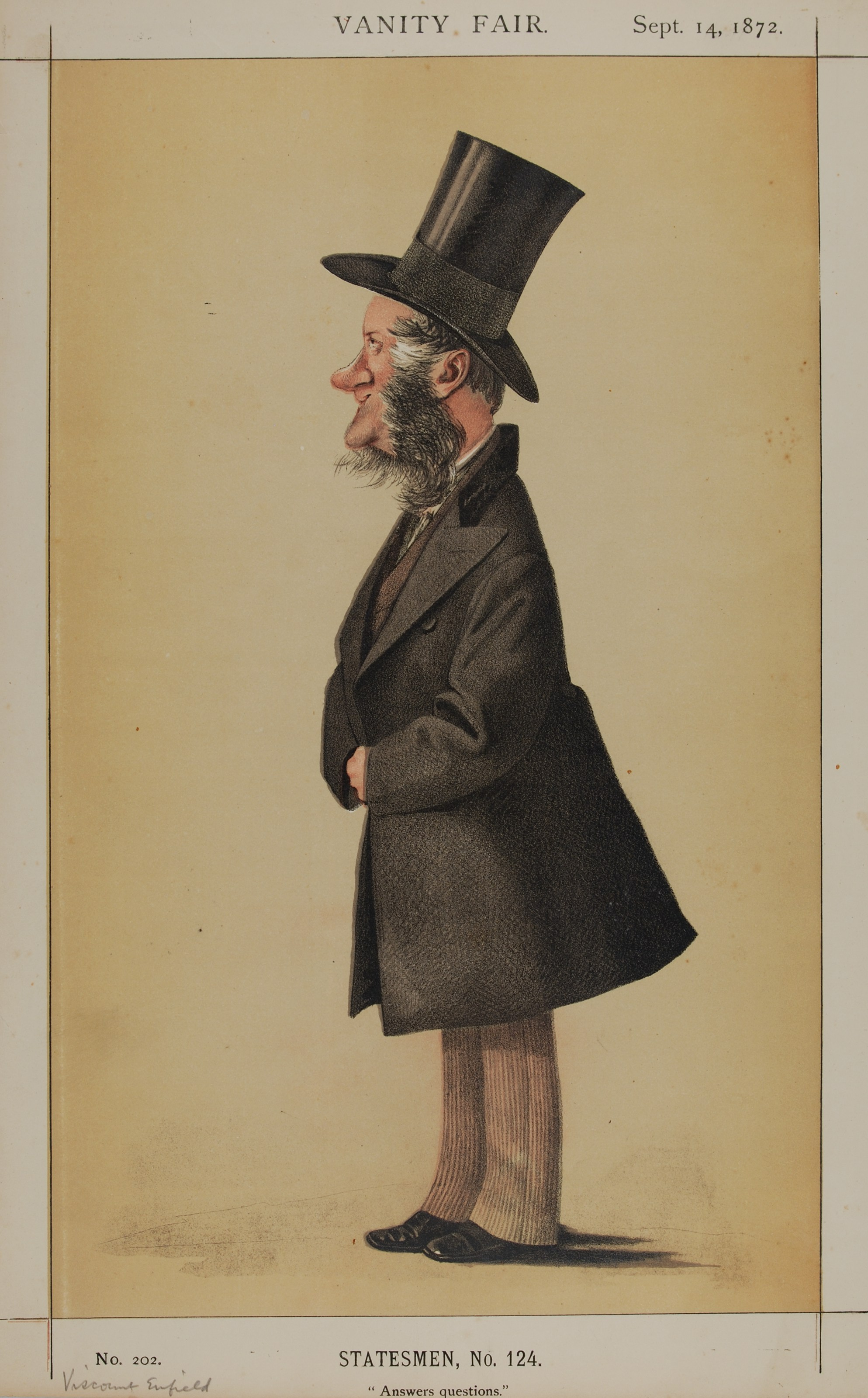 Statesmen No.124: Caricature of Viscount Enfield MP. Caption reads: "Answers questions."